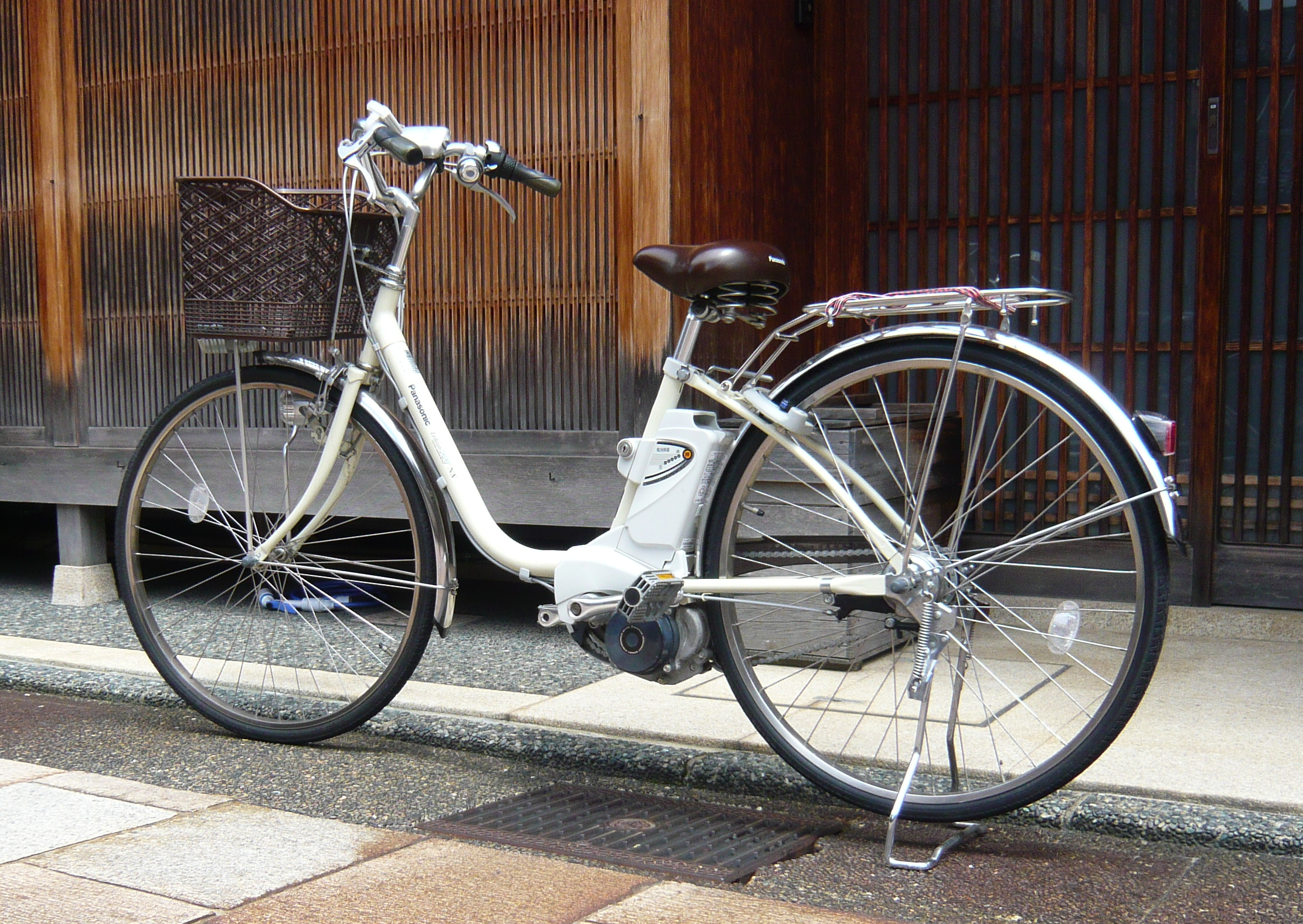 Panasonic Pedelec in Kanzawa, Japan